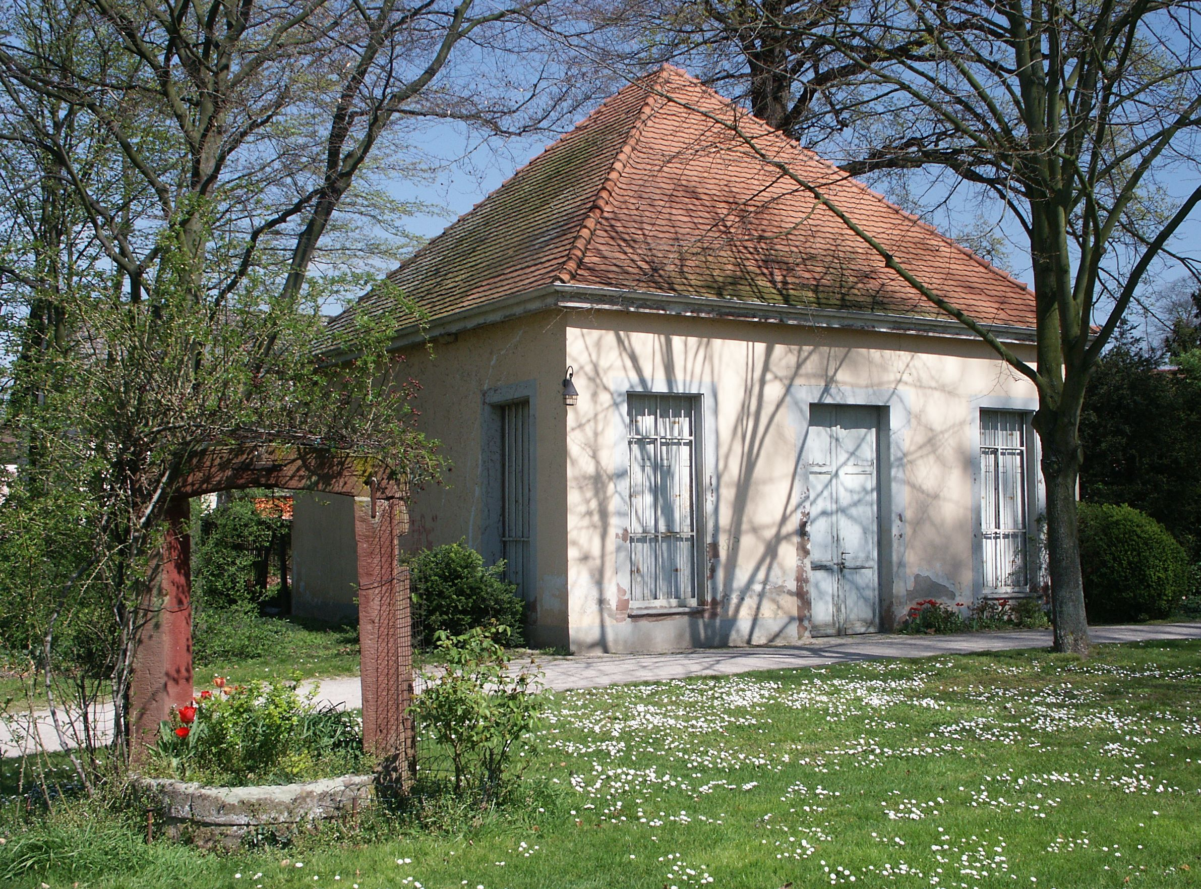 Former orangery of castle in Neckarhausen, in palace garden